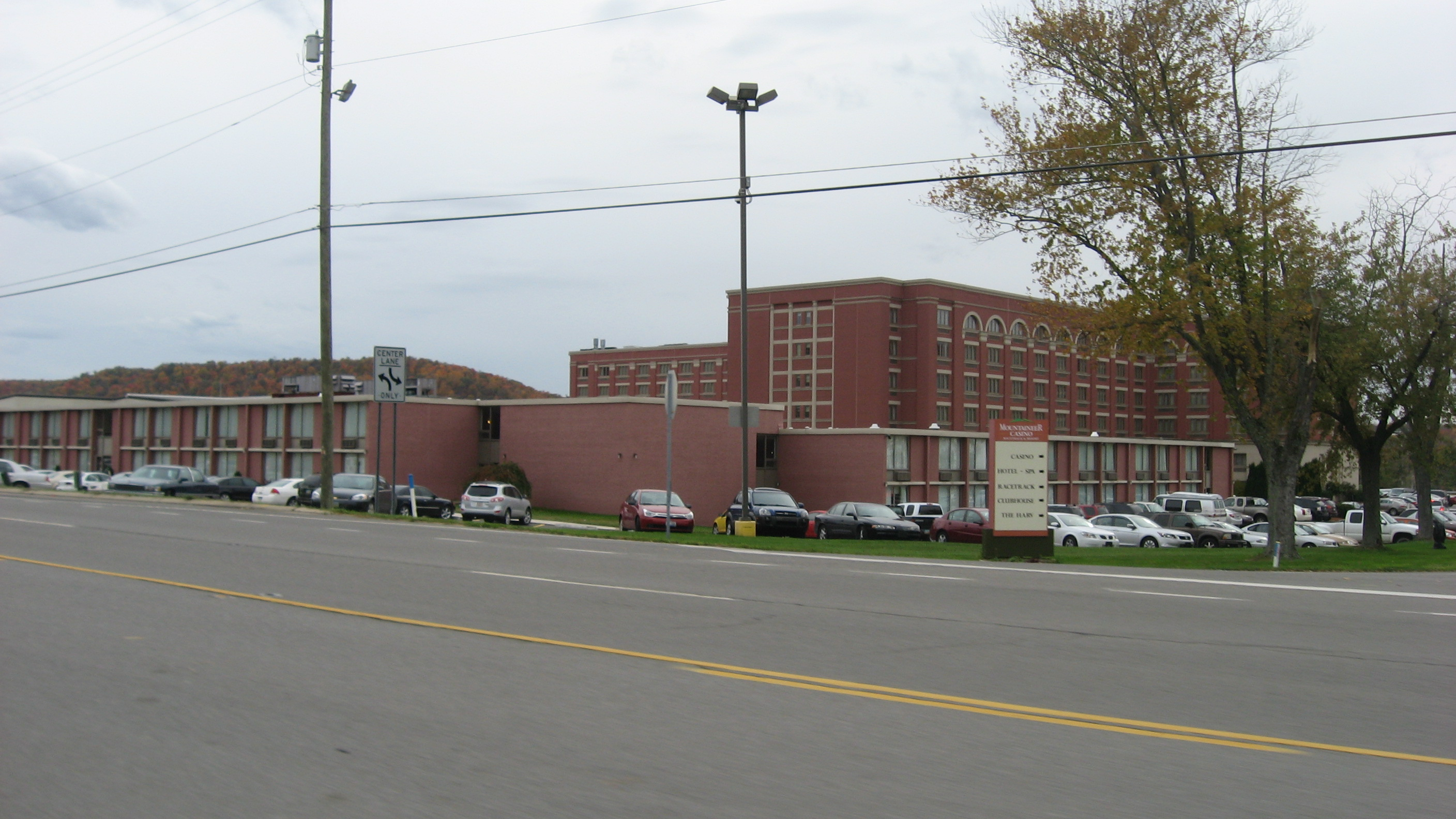 Buildings at Waterford Park, located along West Virginia Route 2 just southwest of Newell, West Virginia, United States. The complex is listed on the National Register of Historic Places.